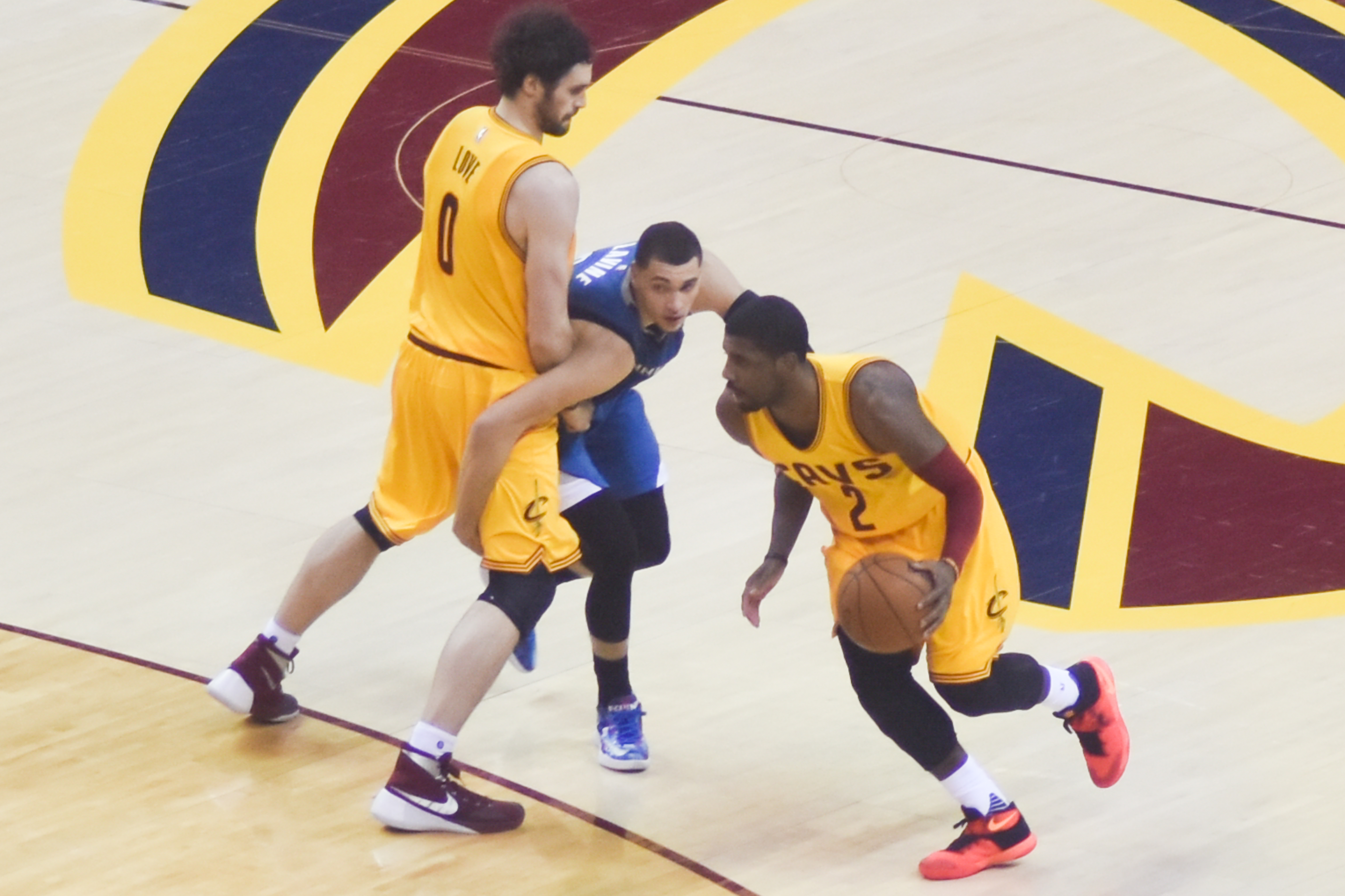 Zach LaVine of Minnesota Timberwolves screened by Kevin Love while guarding Kyrie Irving